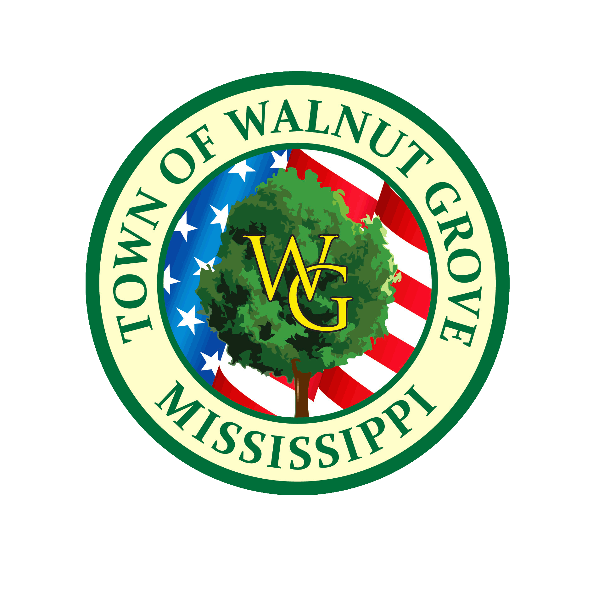 Town Seal Adopted 2012